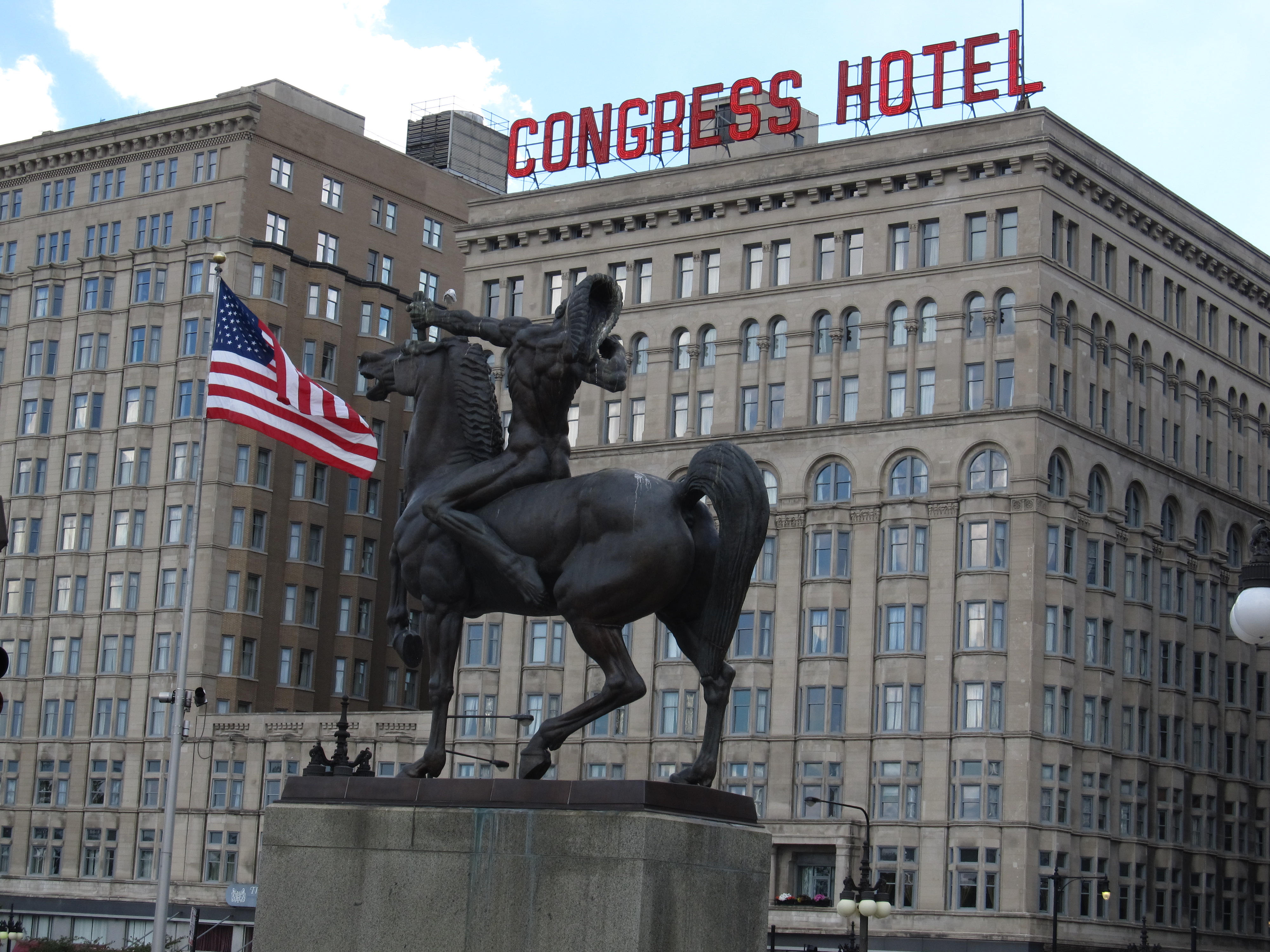 The Bowman and The Spearman, also known as Indians, are two bronze equestrian sculptures standing as gatekeepers in Congress Plaza, at the intersection of Congress Drive and Michigan Avenue in Grant Park, Chicago, United States. The sculptures were made in Zagreb by Croatian sculptor Ivan Meštrović and installed at the entrance of the parkway in 1928. The pair of sculptures was funded by the Benjamin Ferguson Fund. One author said of these works, "Meštrović's finest monumental sculptures are his Chicago Indians (1926-27), they are not too obviously stylized: the muscles on the horsemen are almost anatomically realistic.........These statues show how much more important true sculptural feeling is than ideology, for Meštrović hardly knew anything about the ideals of the American Indians and they certainly did not move him," An unusual aspect of the sculptures is that the figures in both sculptures are missing their weapons, the bow and arrow and the spear.